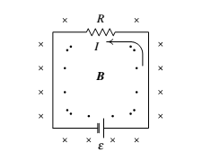 Auto indut